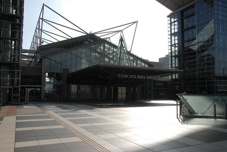 Depicts the Entrance Hall to the Tokyo Big Sight main area.